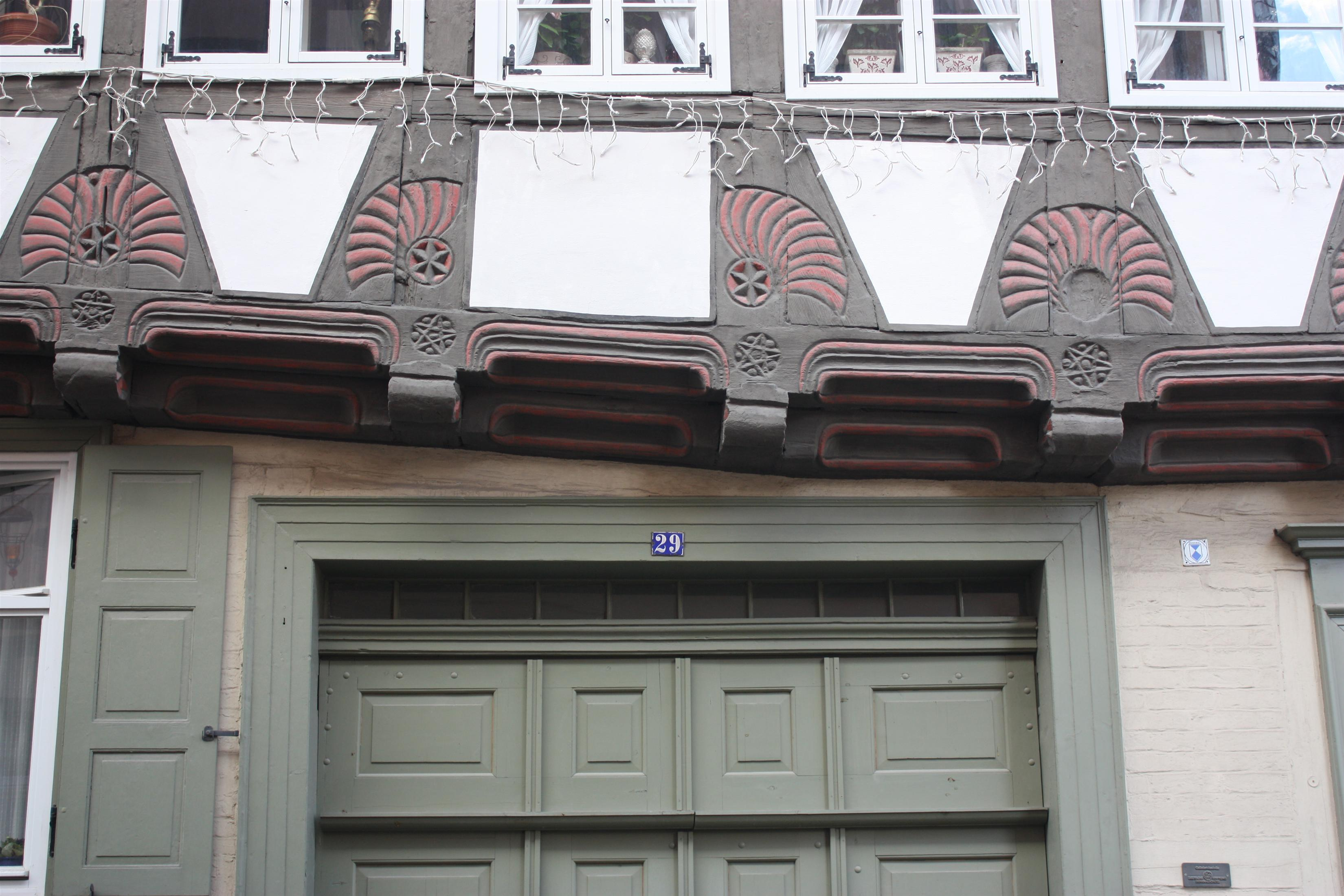 This is a photograph of an architectural monument.It is on the list of cultural monuments of Quedlinburg Hohe Straße 29